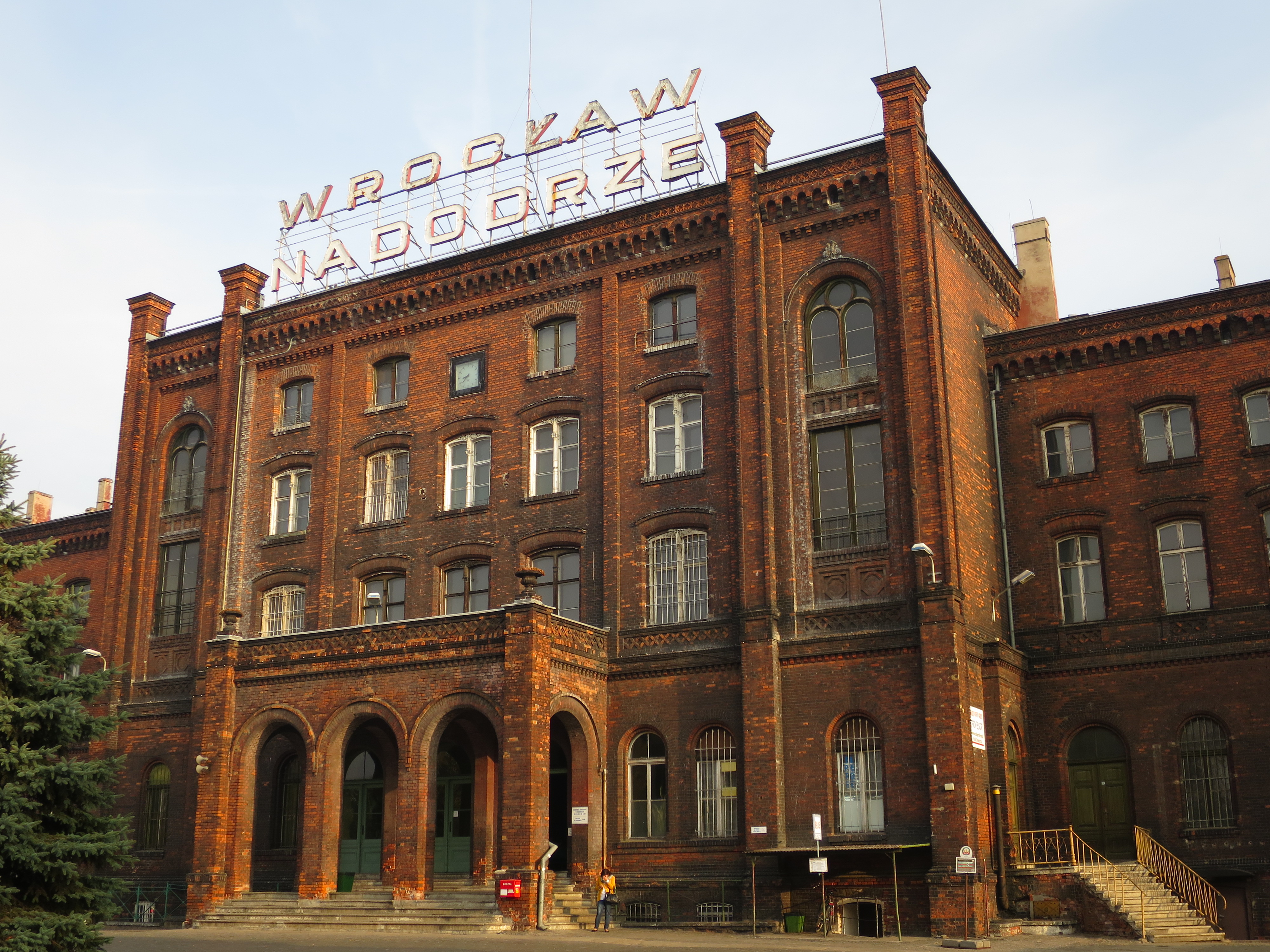 Wrocław Nadodrze This photo was taken during Railway Wikiexpedition 2015 set up by Wikimedia Polska Association in cooperation with Fundacja Grupy PKP.You can see all photographs in category Wikiekspedycja kolejowa 2015.